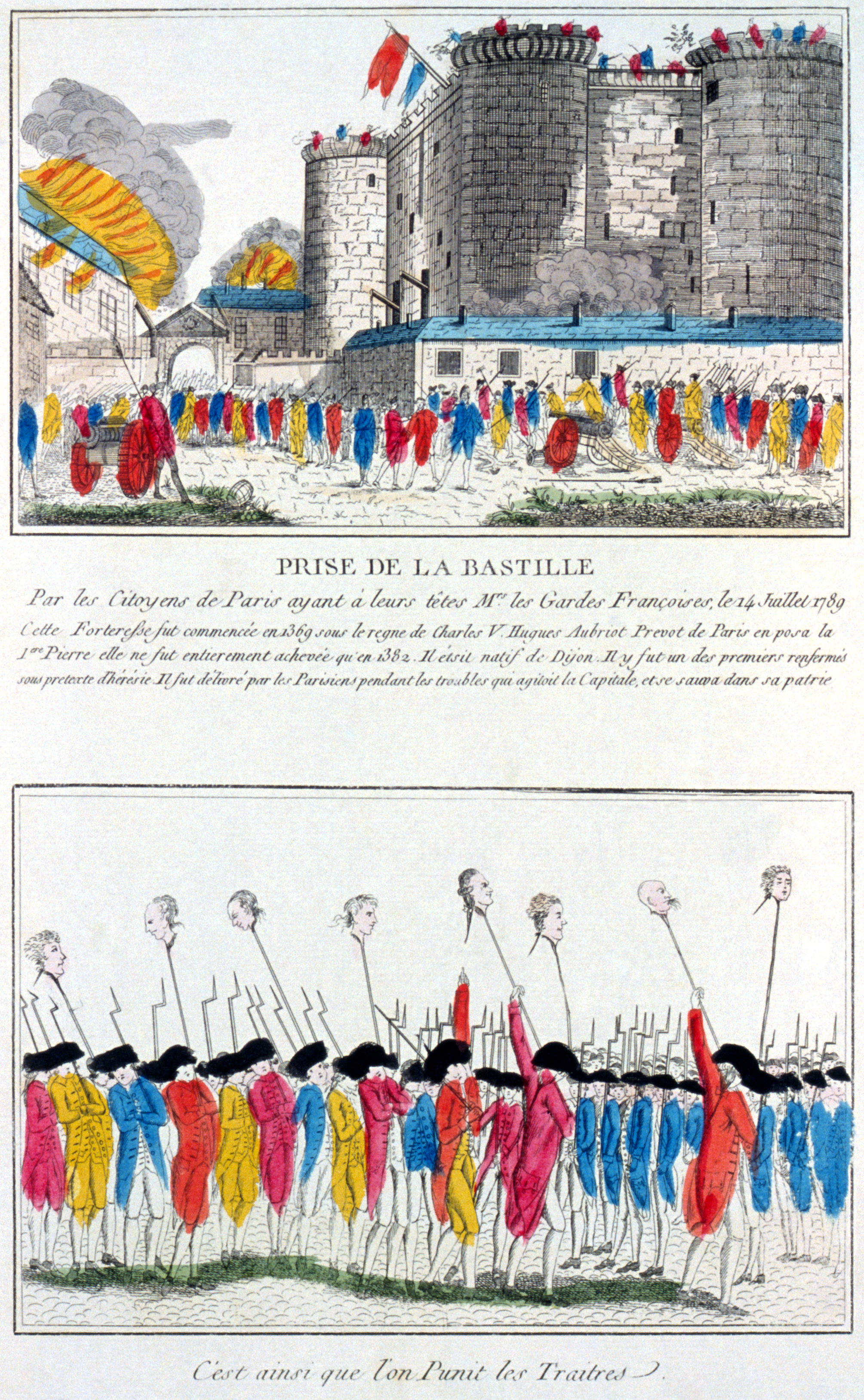 A 1789 French hand tinted etching that depicts the storming of the Bastille during the French Revolution English translation: First caption Storming of the Bastille:: The citizens of Paris led by the Gardes Françaises on the 14th of July 1789. Building of this fortification started in 1369 during the reign of Charles V. Hugues Aubriot, a native of Dijon and Provost of Paris, laid the first stone. Construction was completed in 1382. Aubriot was born in Dijon. He became one of the first prisoners of the Bastille, imprisoned under the pretext of heresy. He was liberated by the Parisians during the troubles that stirred the capital, and escaped to his motherland. Second caption This is how we punish traitors.